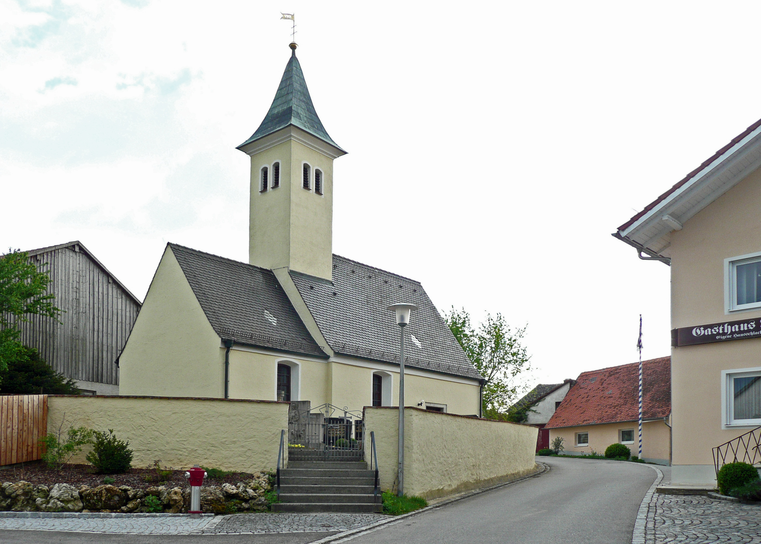 St. Gertraud church in Altenberg near Denkendorf seen from NE. This is a photograph of an architectural monument.